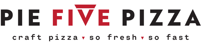 The updated Pie Five logo (2019)